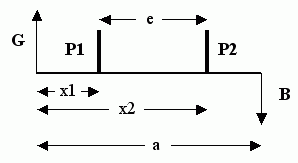 schematic for the Bessel Method for determining the focal length of a lense